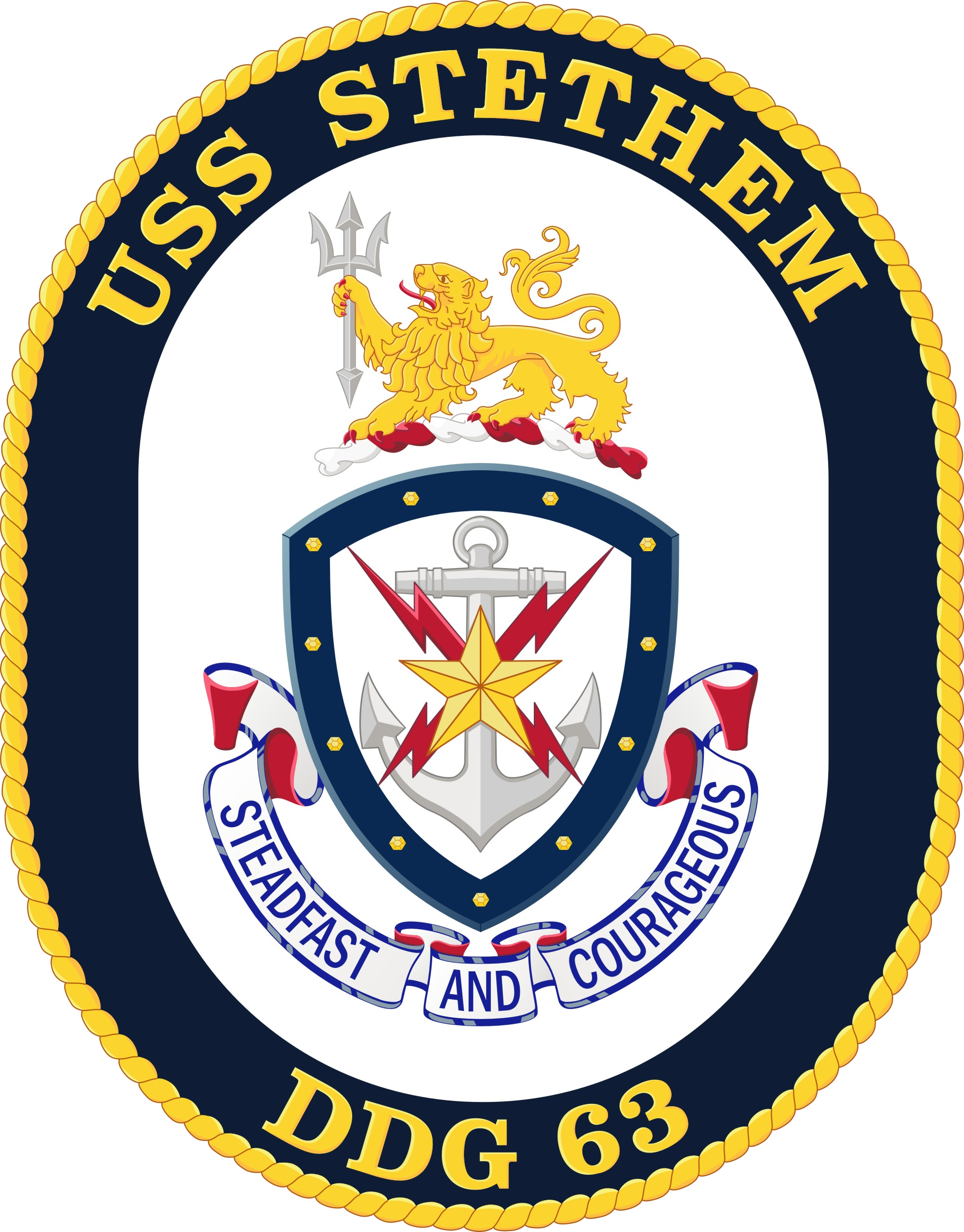 Emblem of the USS Stethem (DDG-63)